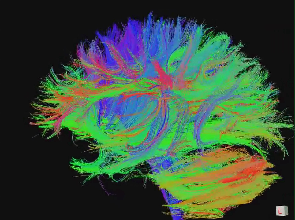 "Why we are the way we are: the Internet of our brains. These are axonal nerve fibers in the real brain as determined by the measured anisotropy (directionality) of water molecules inside them. 3T 30 channel GRAPPA DTI scan protocol, deterministic tractography performed using TrackVis/FACT algorithm. You might know the subject :-)"